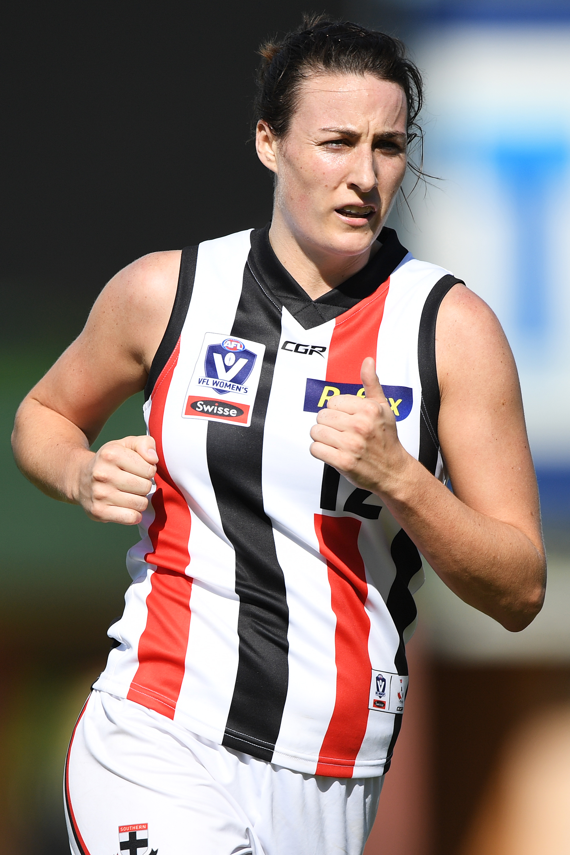 Clara Fitzpatrick of the Southern Saints during the 2019 VFLW round 2 match between NT Thunder and the Southern Saints at TIO Stadium on Saturday, 18 May 2019 in Darwin, Northern Territory.